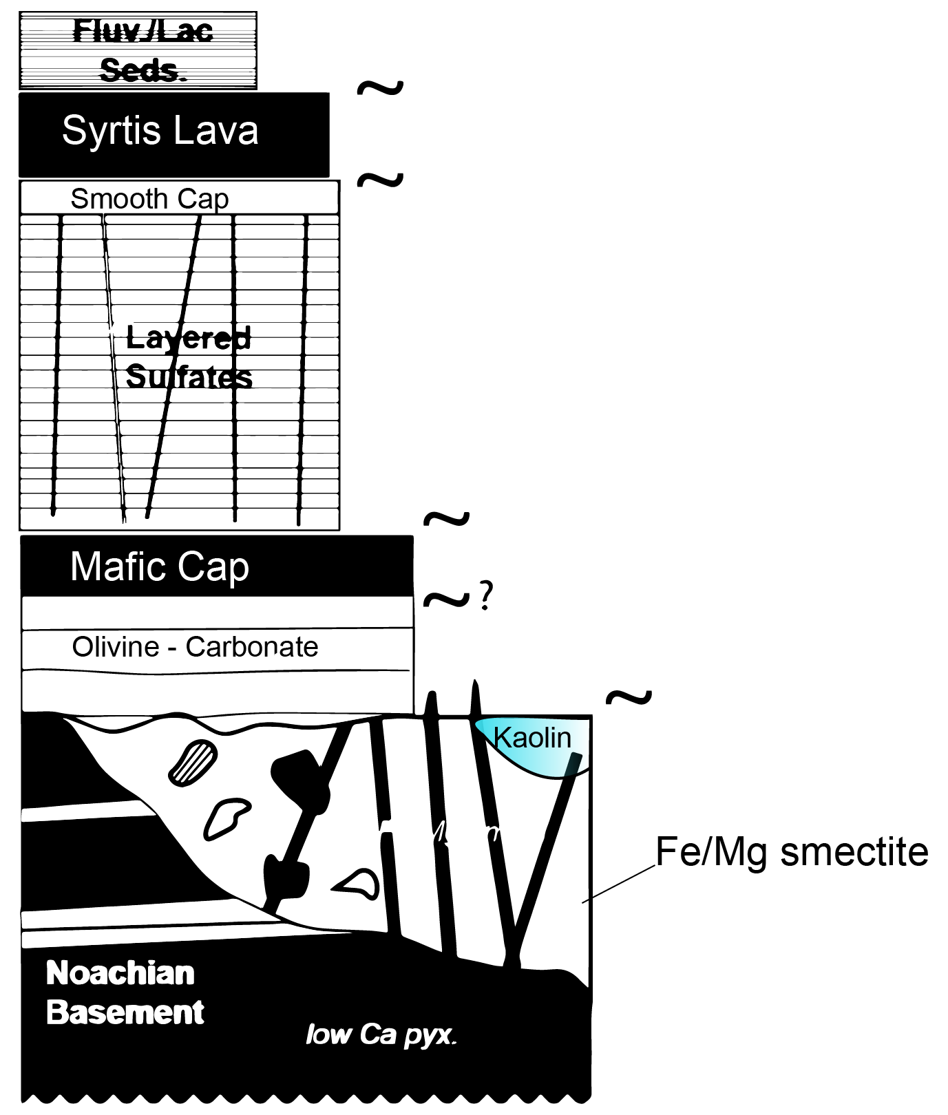 StratigraphicColumn of Northeast Syrtis